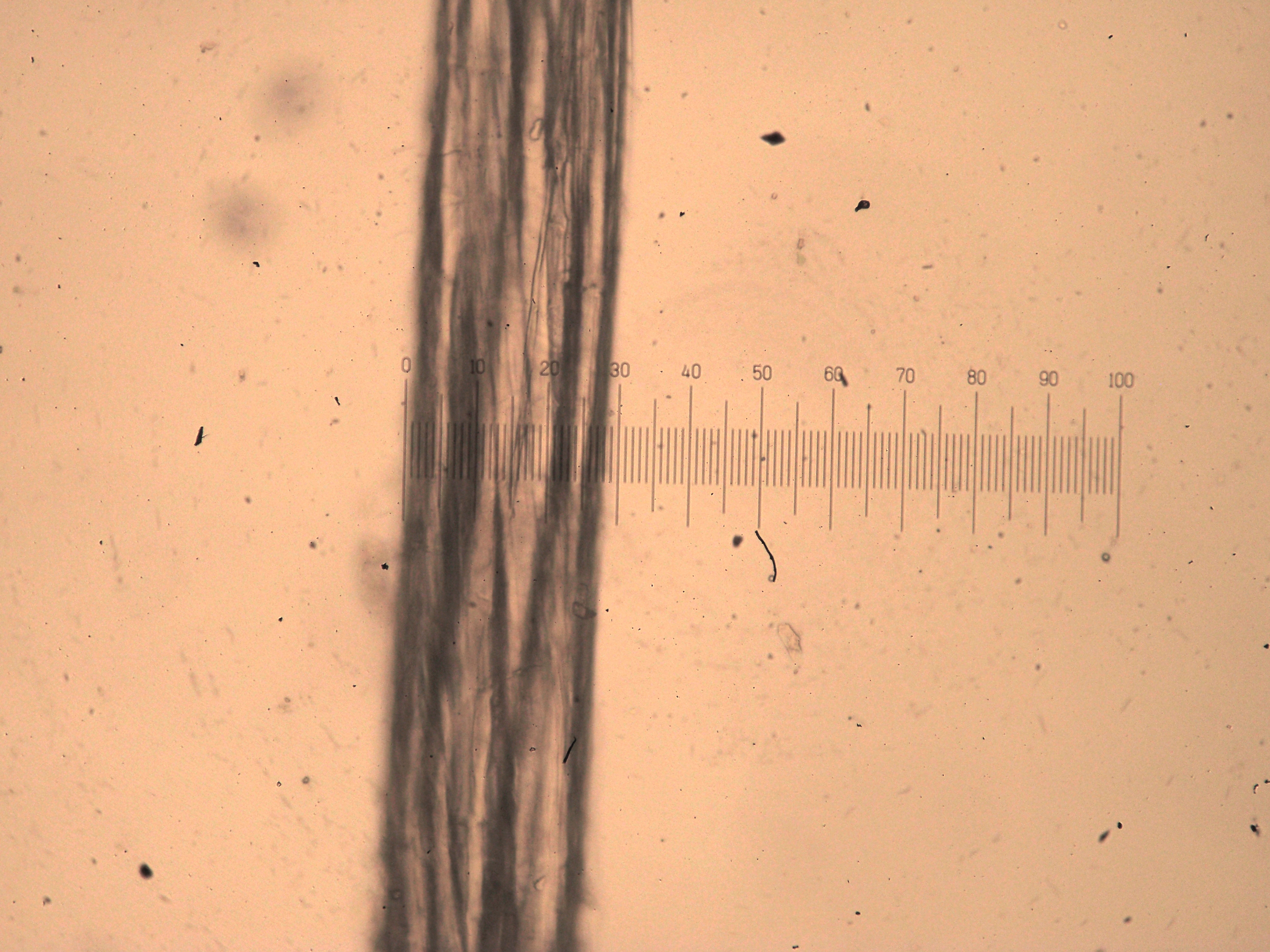 Single fiber of olona under the microscope